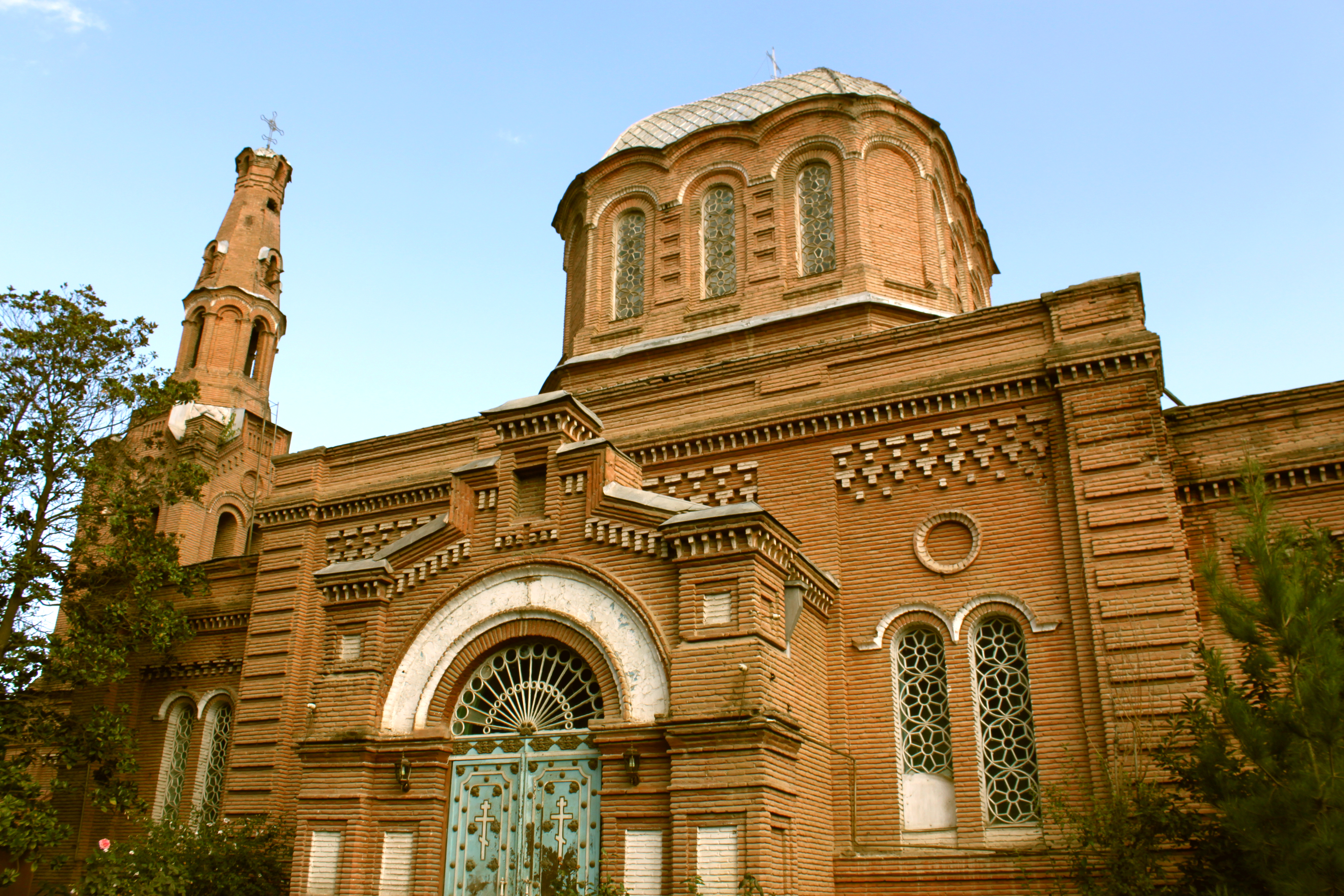 Alexander Nevsky church in Ganja